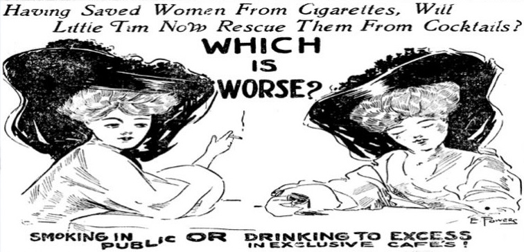 The Evening World in 1908 21 January. Advert spoofing the Sullivan Ordinance in New York